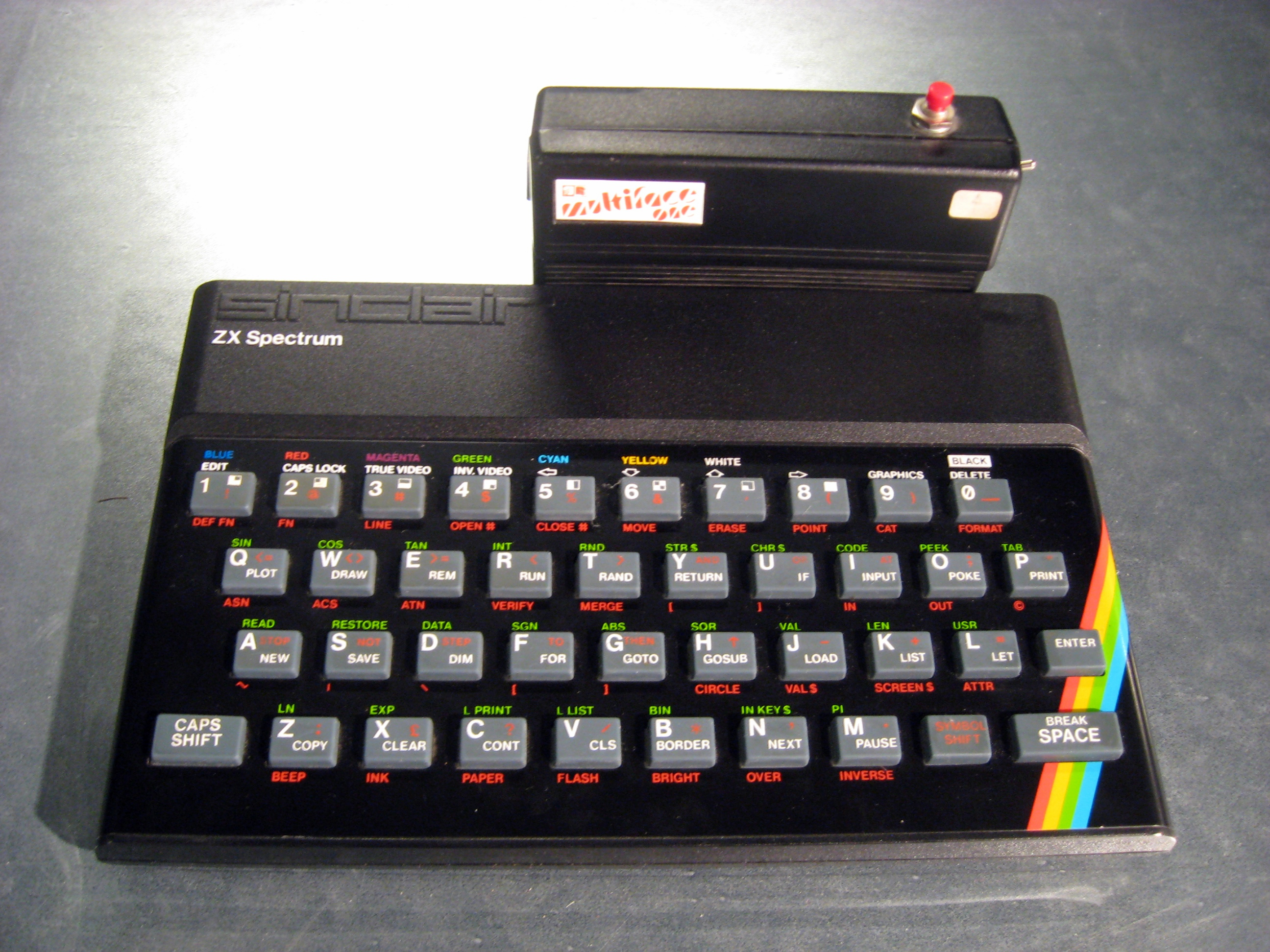 Computer equipment / ZX Spectrum 48 K with a Multiface One cartridge